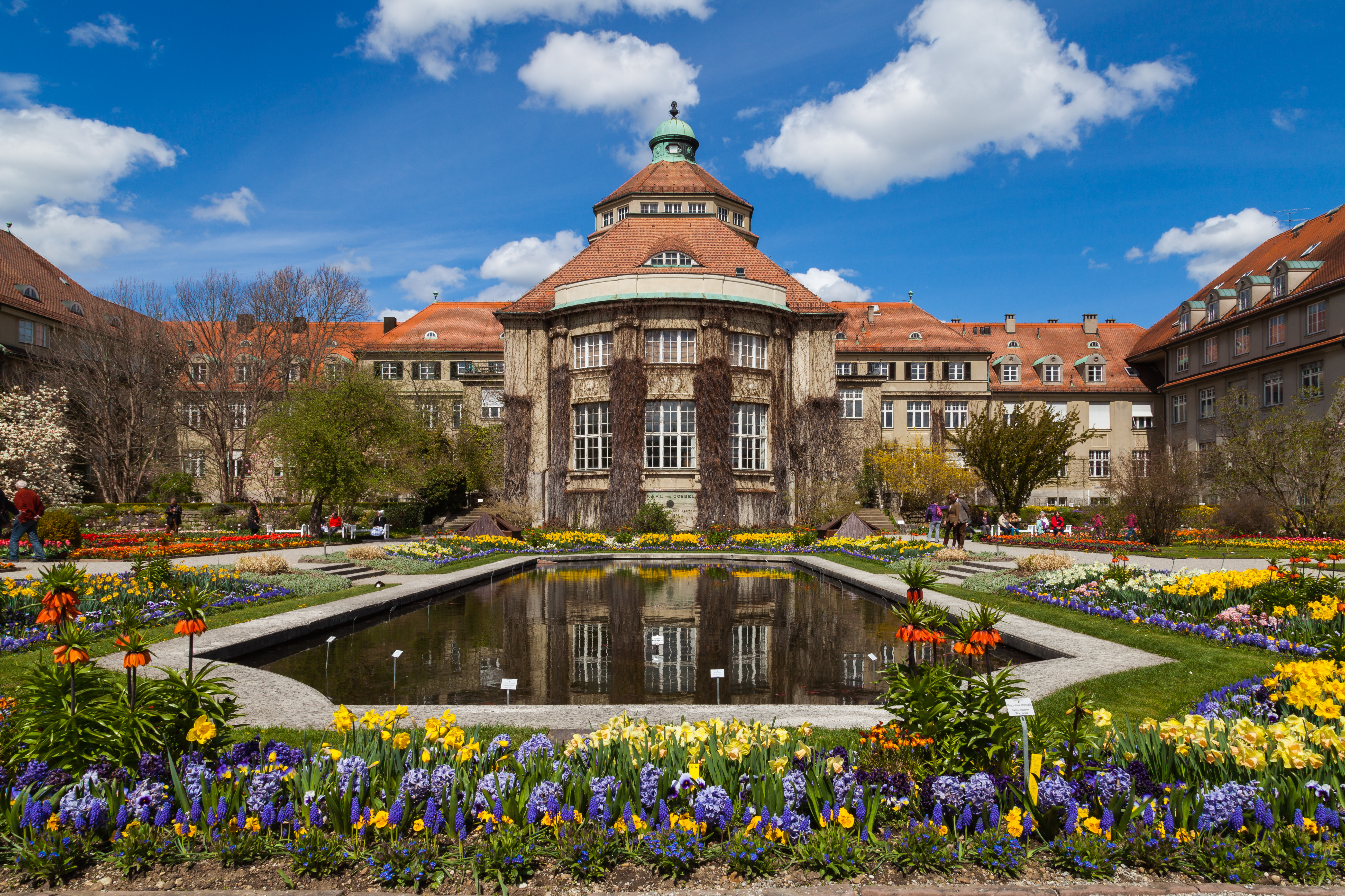 Main building, Botanic Garden, Munich, Germany